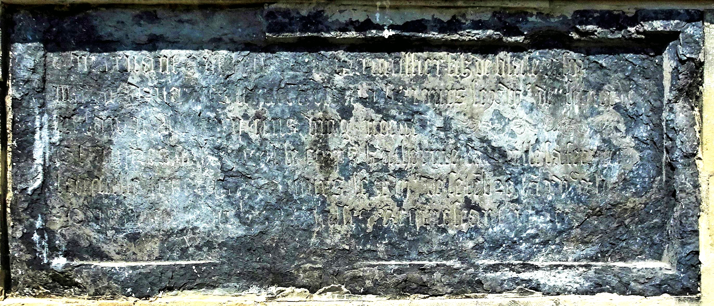 Saint-Sébastien's church, Jean Mullier, mayeur d'Annapes's funerary slab in Villeneuve-d'Ascq (Nord, France). Dalle funéraire de Jean Mullier, classée aux Monuments historiques, Palissy PM59001476[1]